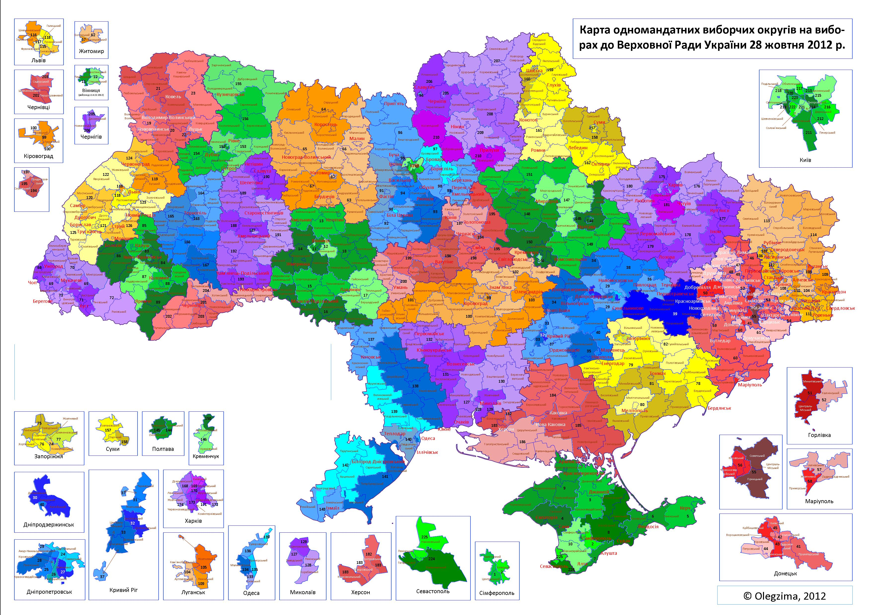 Electional regions of Ukraine (28 October, 2012)